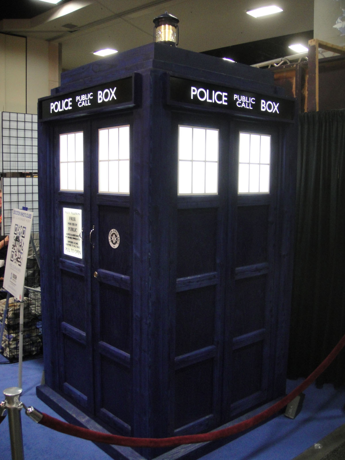 San Diego Comic-Con 2011 - the Tardis from Doctor Who